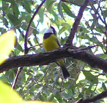 Cowan NSW Australia, 02-Sep-2006